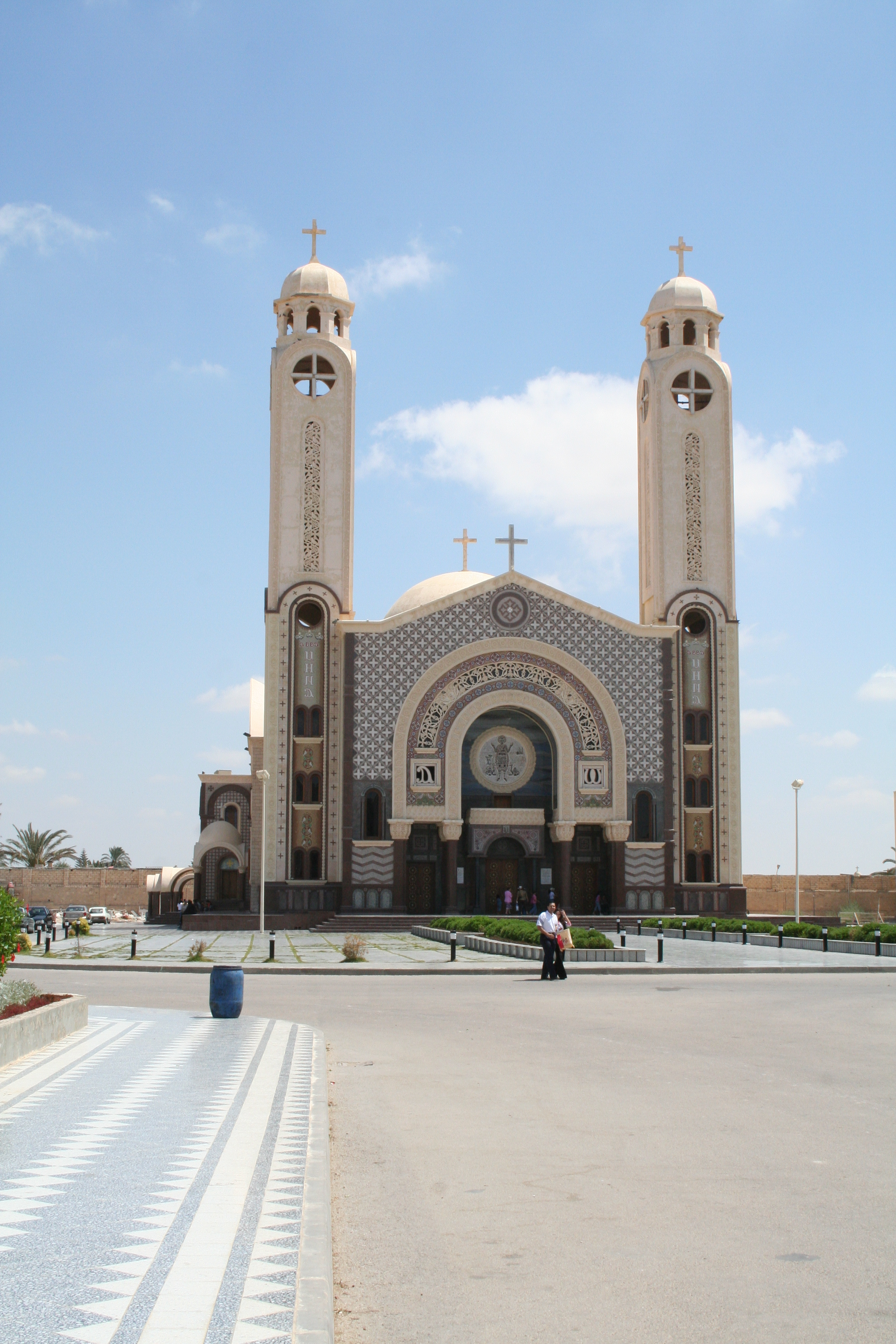 Abu Mena, Modern Monastery, Cathedral of Saint Menas